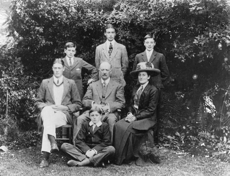 9th Battery, 41st Brigade, Royal Field Artillery 2nd Lt Farmer (centre back row) with his family in the garden of their home at Mundesley, Norfolk. Lt Farmer was the second of five service sons of Lieutenant J H Farmer (late attached officer, War Office) and Mrs Farmer (District Representative of the Red Cross Society and member of the War Agricultural Committee). James was educated at the Royal Military Academy, Woolwich and gazetted as second lieutenant to the Royal Field Artillery in 1913. On the outbreak of war, he was posted to the Western Front with 9th Battery, 41st Brigade. Lt Farmer was killed in action, aged 21, on 4 November 1914. He is commemorated on the Ypres (Menin Gate) Memorial and buried at Eksternest cemetery. Photo also shows: Lieutenant F S H Farmer (Special Reserves of Officers, 3rd Attached and 2nd Norfolks); Lieutenant L G H Farmer (Royal Navy, served on HMS Colossus in the North Sea and Flag Lieutenant to Naval Commander in Chief, East Indies); Lieutenant C R H Farmer (18th Hussars, Motor Machine Guns Section) and G A H Farmer (Honourable Artillery Company). Photograph presented by his father Lieutenant J H Farmer, Norfolk. Faces of the First World War Find out more about this First World War Centenary project at This image is from IWM Collections. The Museum released this image on a custom licence - IWM Non-Commercial license. However where the photograph has no known author, these are public domain under the 70 rule and where they were owned by the Ministry of Information, any other government department or agency, taken by a member of the military during their service or by a photographer commissioned by the services, these are now out of copyright restriction.